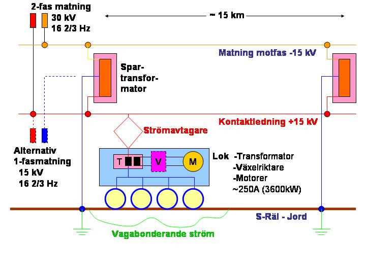 Autotransformatorsystem (AT)